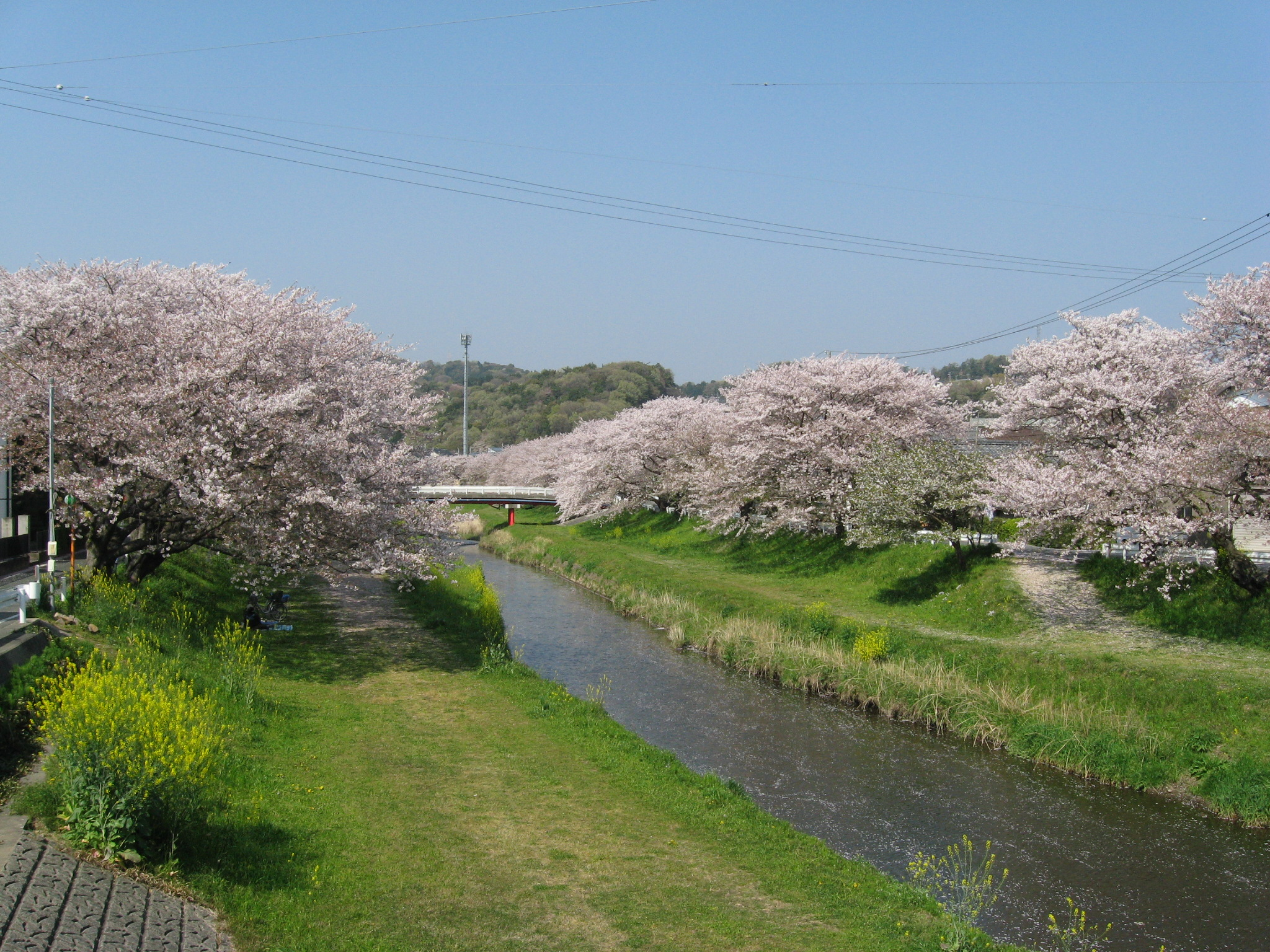 春の音羽川 (Otowa River in the spring) 愛知県豊川市内にて。新御油橋より撮影。